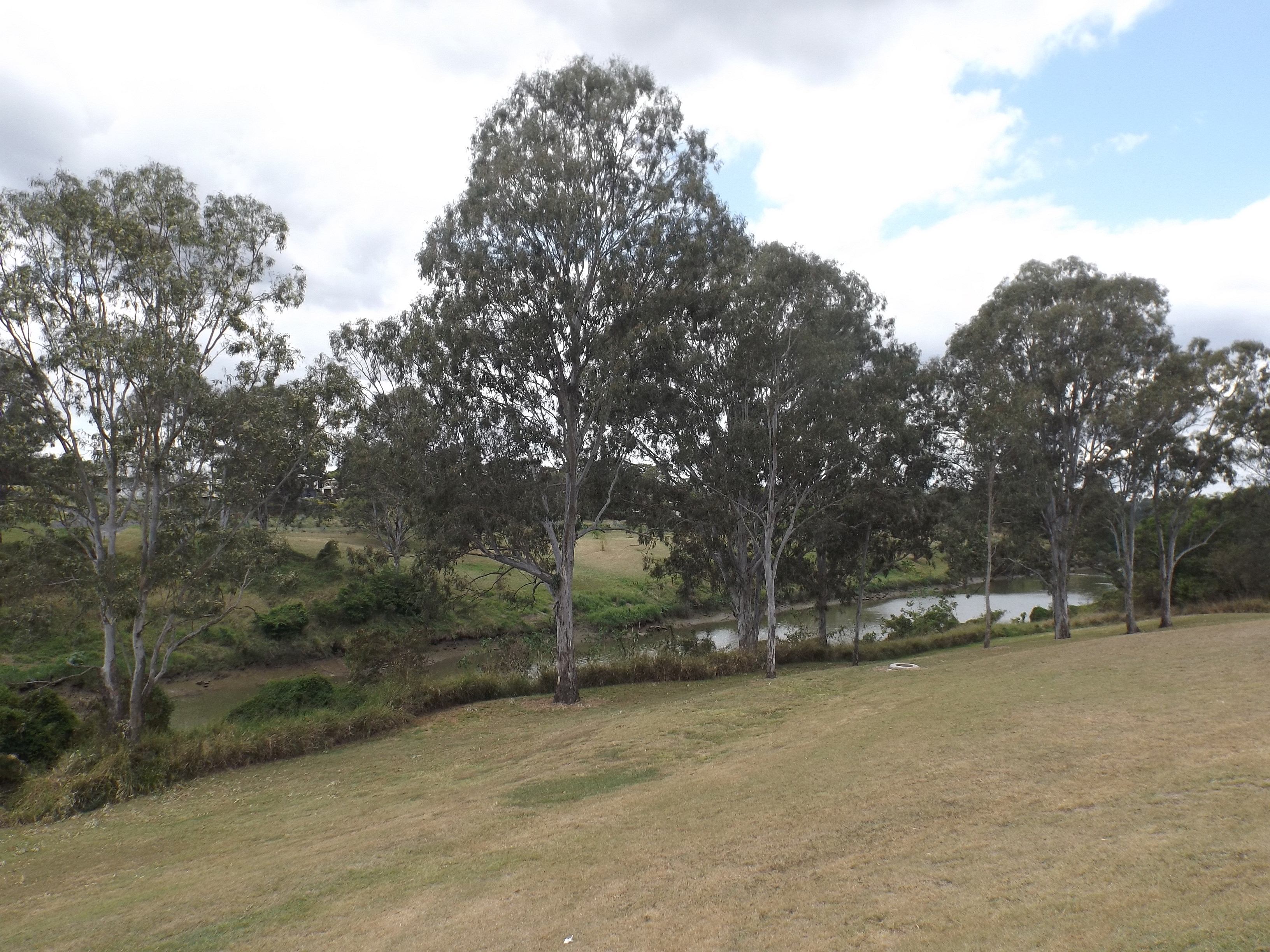 Photo of park and Bremer River along Mcleod Street in Basin Pocket, Ipswich, Queensland, Australia. Opposite bank of river is Moores Pocket.